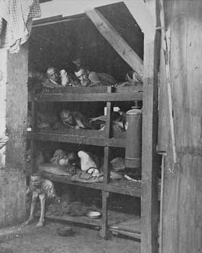 Survivors lie in multi-tiered bunks in the infirmary barracks of the newly liberated Buchenwald concentration camp. The original caption reads "Intolerable filth surrounds patients in "hospital" at Buchenwald concentration camp near Weimar, Germany. Disease, malnutrition above all, plus incessant torture, resulted in approximately 20 deaths a day."